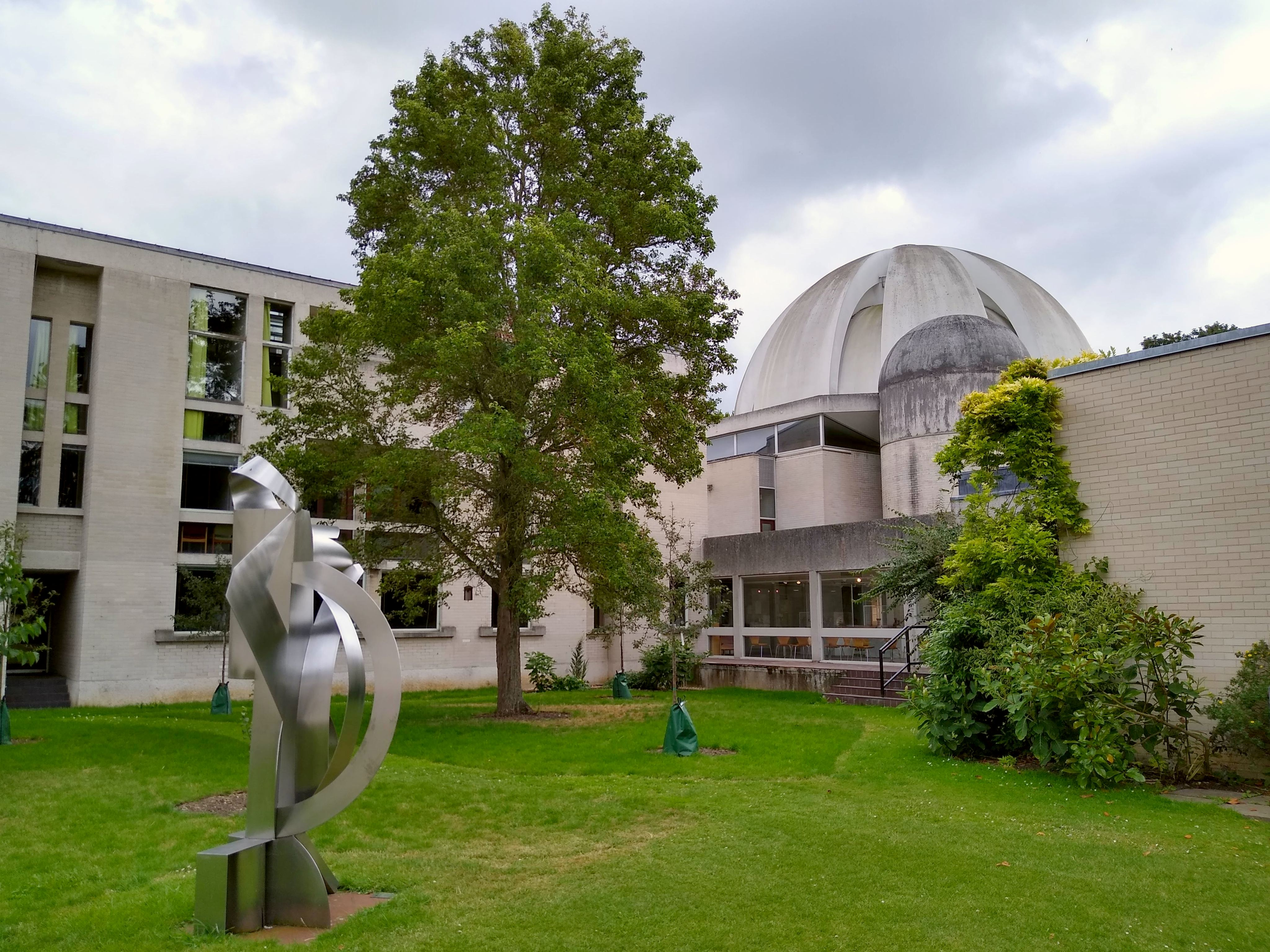 Improvisation by Naomi Press, an accommodation block and the dome at Murray Edwards College, Cambridge in July 2019.